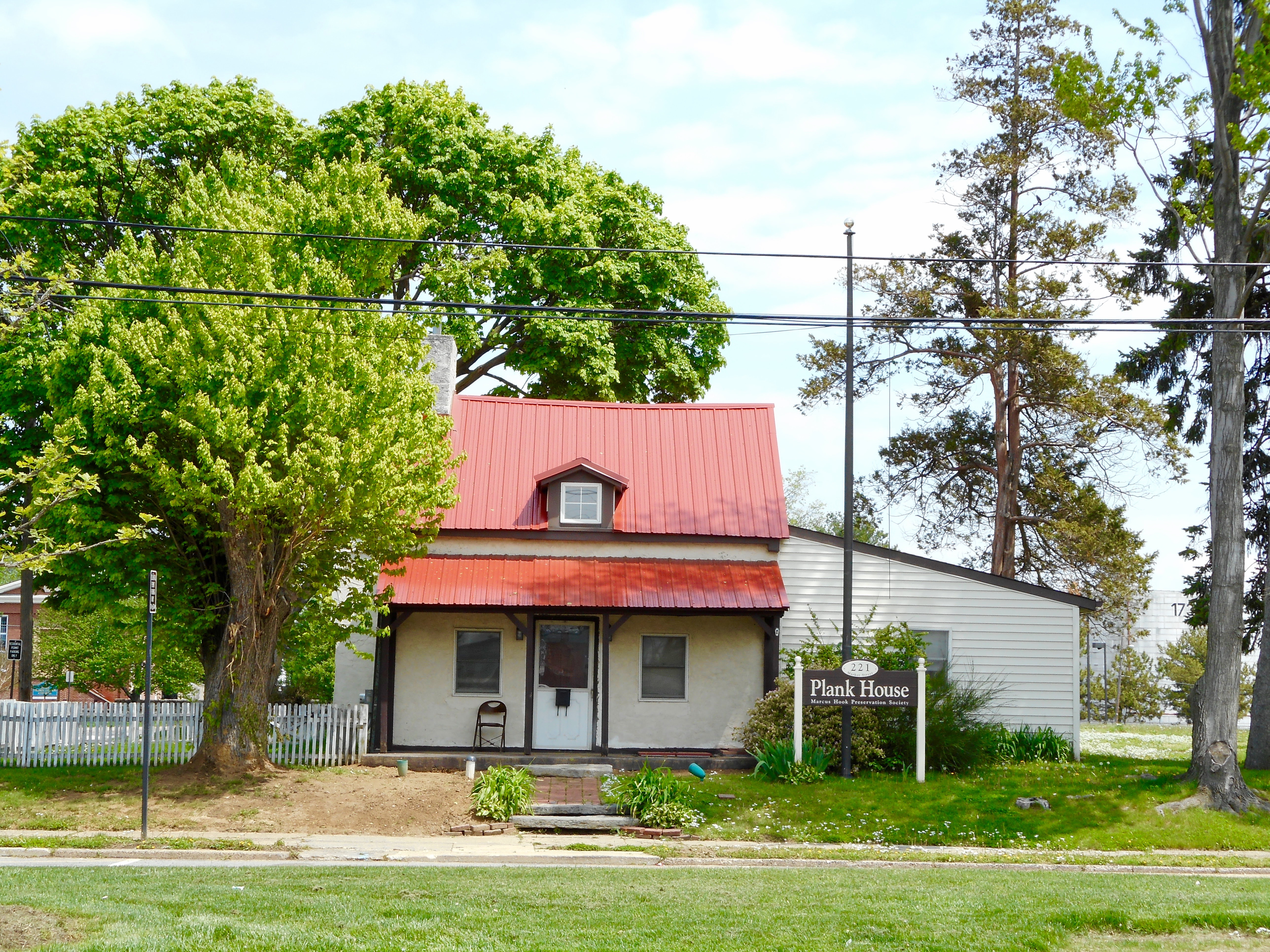 Marcus Hook Plank House listed on the NRHP on April 10, 2017 (#100000856) at 221 Market St.i n Marcus Hook, Pennsylvania. Legend (and little else) says that Edward Teach, aka Blackbeard, visited his main squeeze here, after a hard day of pirating on the Delaware Bay.